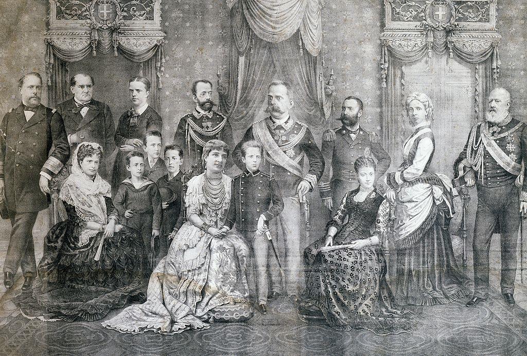 The Royal family of King Umberto I of Savoy